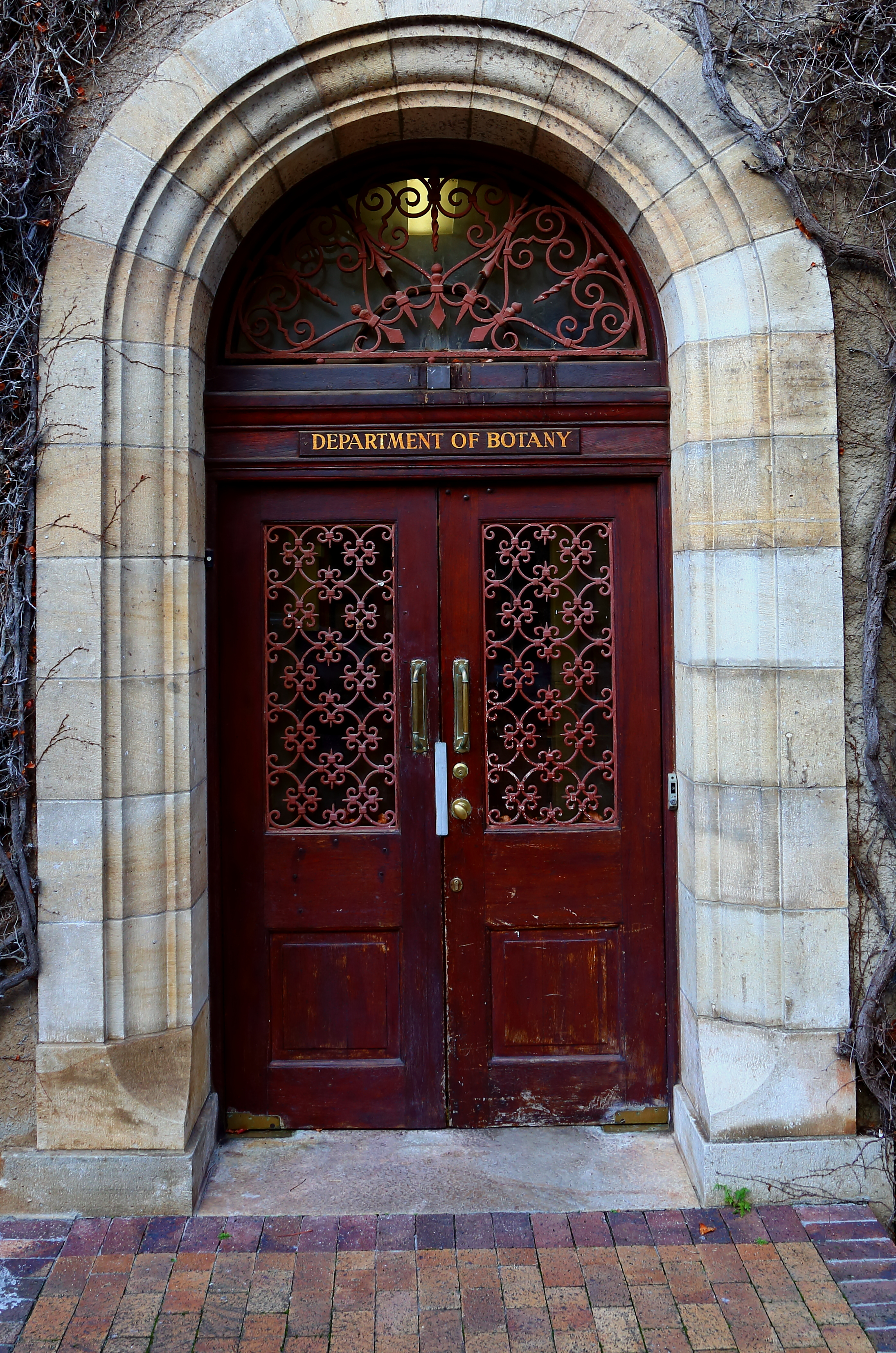 The door to the Bolus Herbarium Library in the Botany Building at the University of Cape Town.